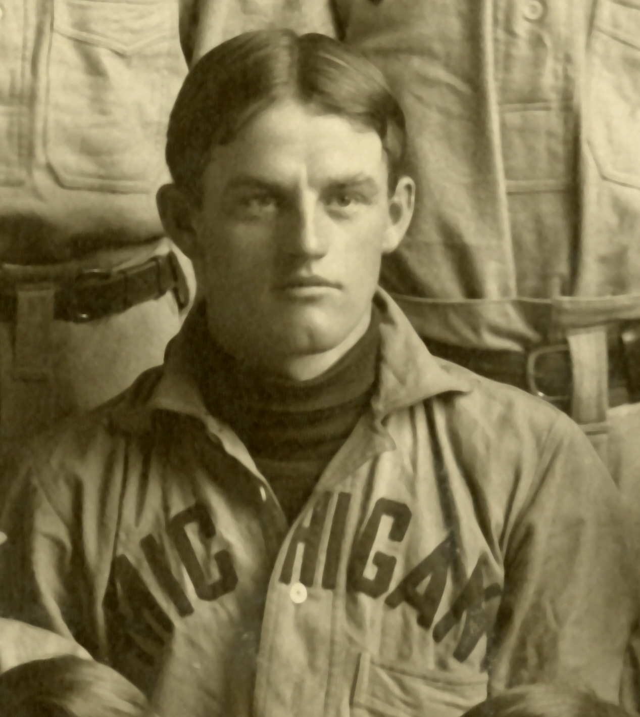 Photograph of Jerome Utley